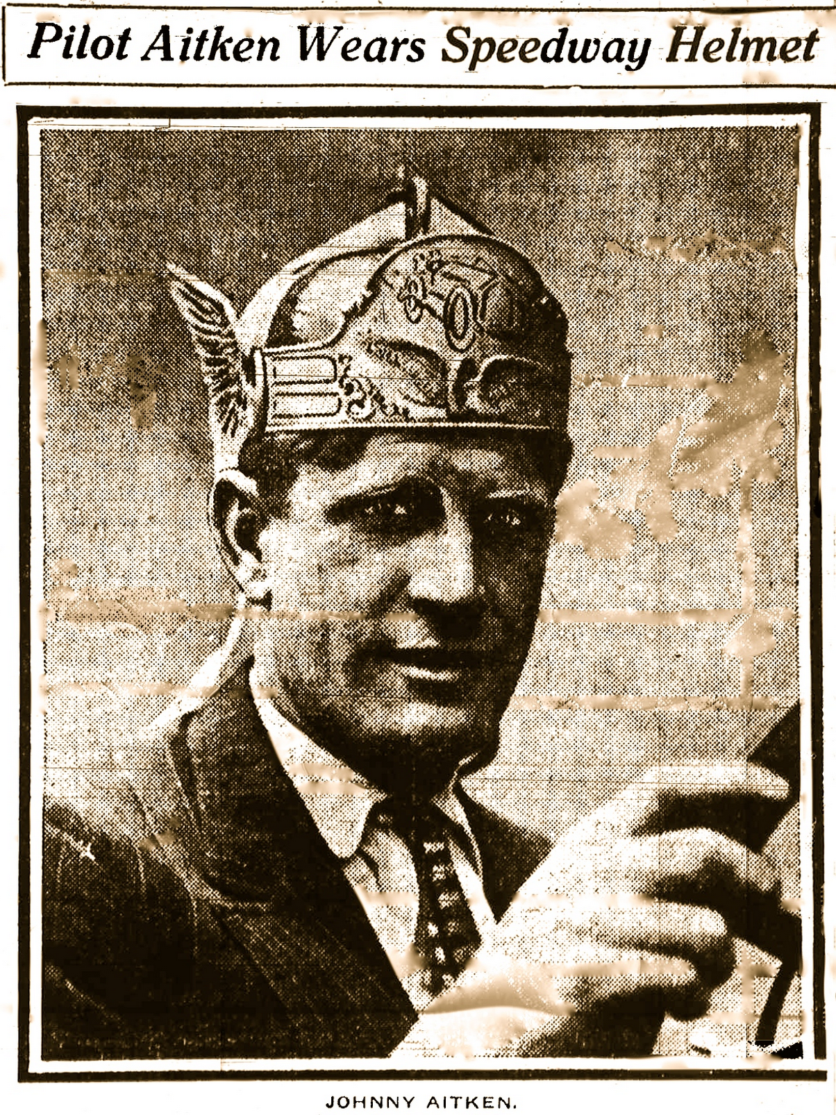 May 1910: auto racing star driver Johnny Aitken models the unique "Speedway Helmet" trophy. This prize was award three times in 1910 to winners of sprint races held at May, July and September race meets at the Indianapolis Motor Speedway. Interestingly, Aitken never won the trophy.